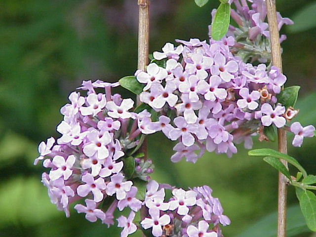 Species: Buddleja alternifolia Family: Buddlejaceae Image No. 4